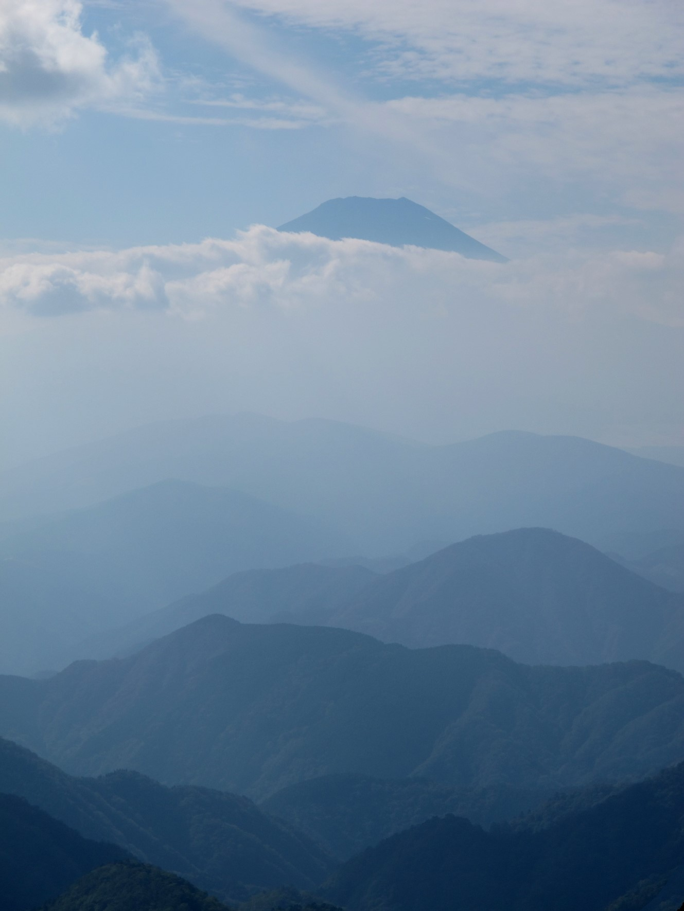 Fuji from Tonodake